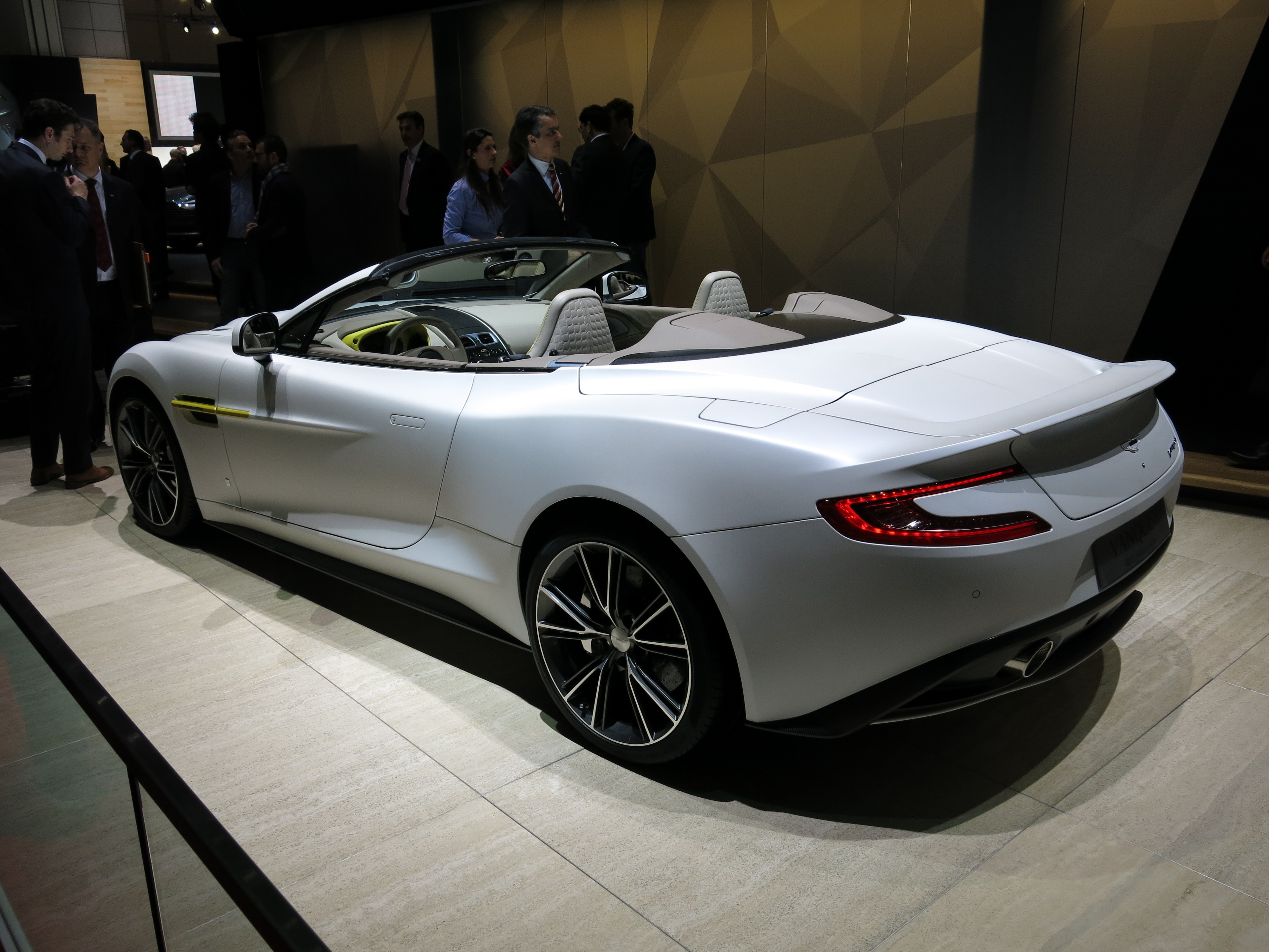 Geneva Motor Show 2015 (photo taken on the first press day)